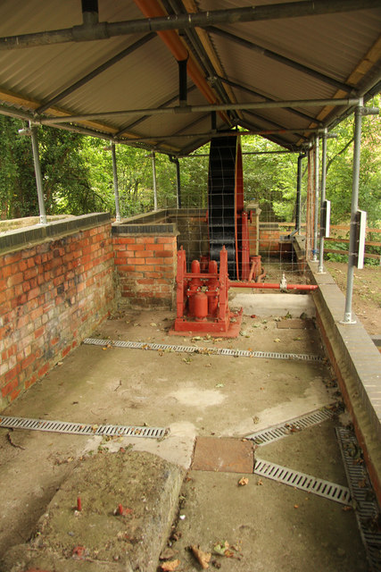 Branston Water Wheel